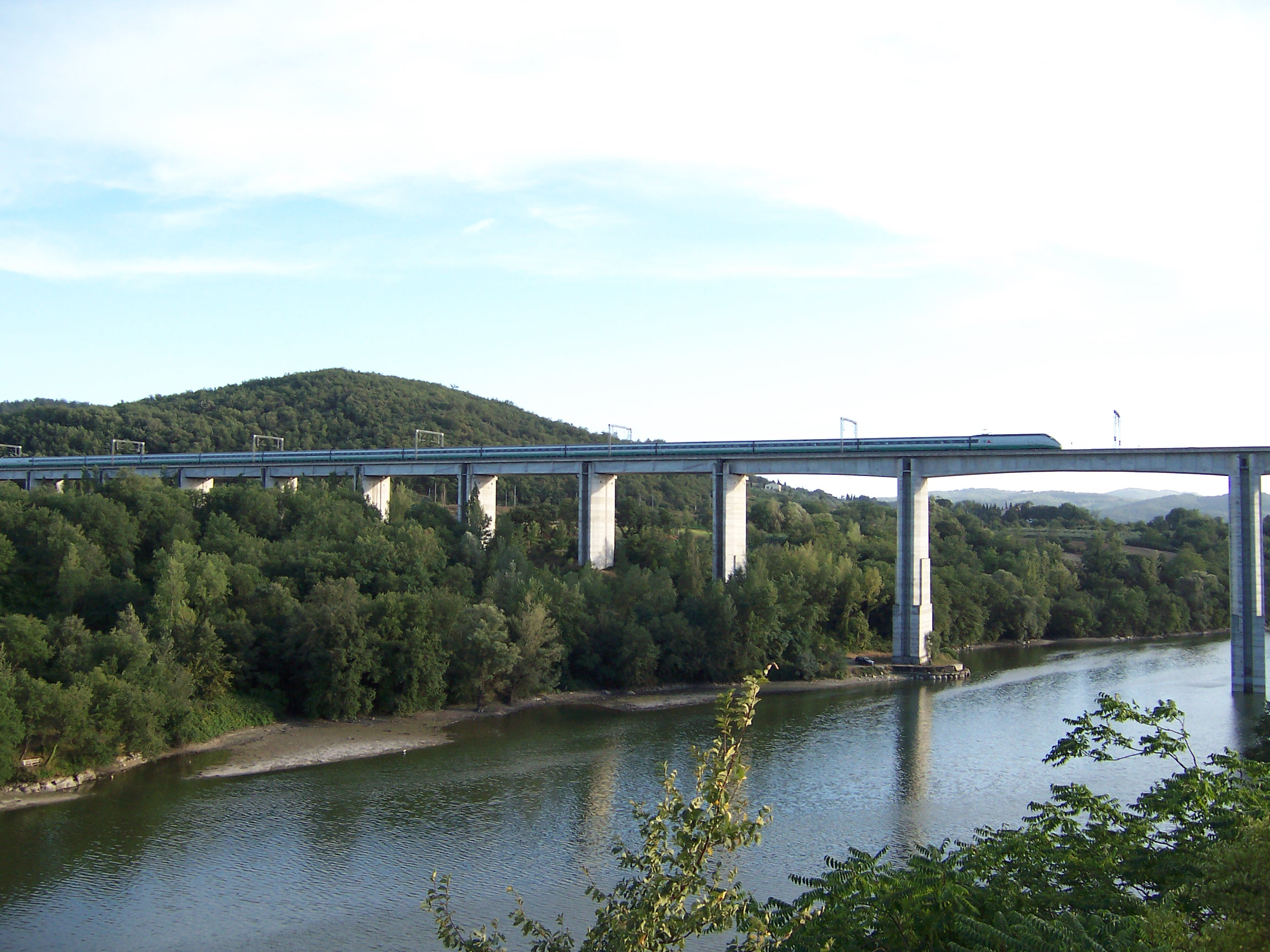 ETR 500 at Rondine (Arezzo)